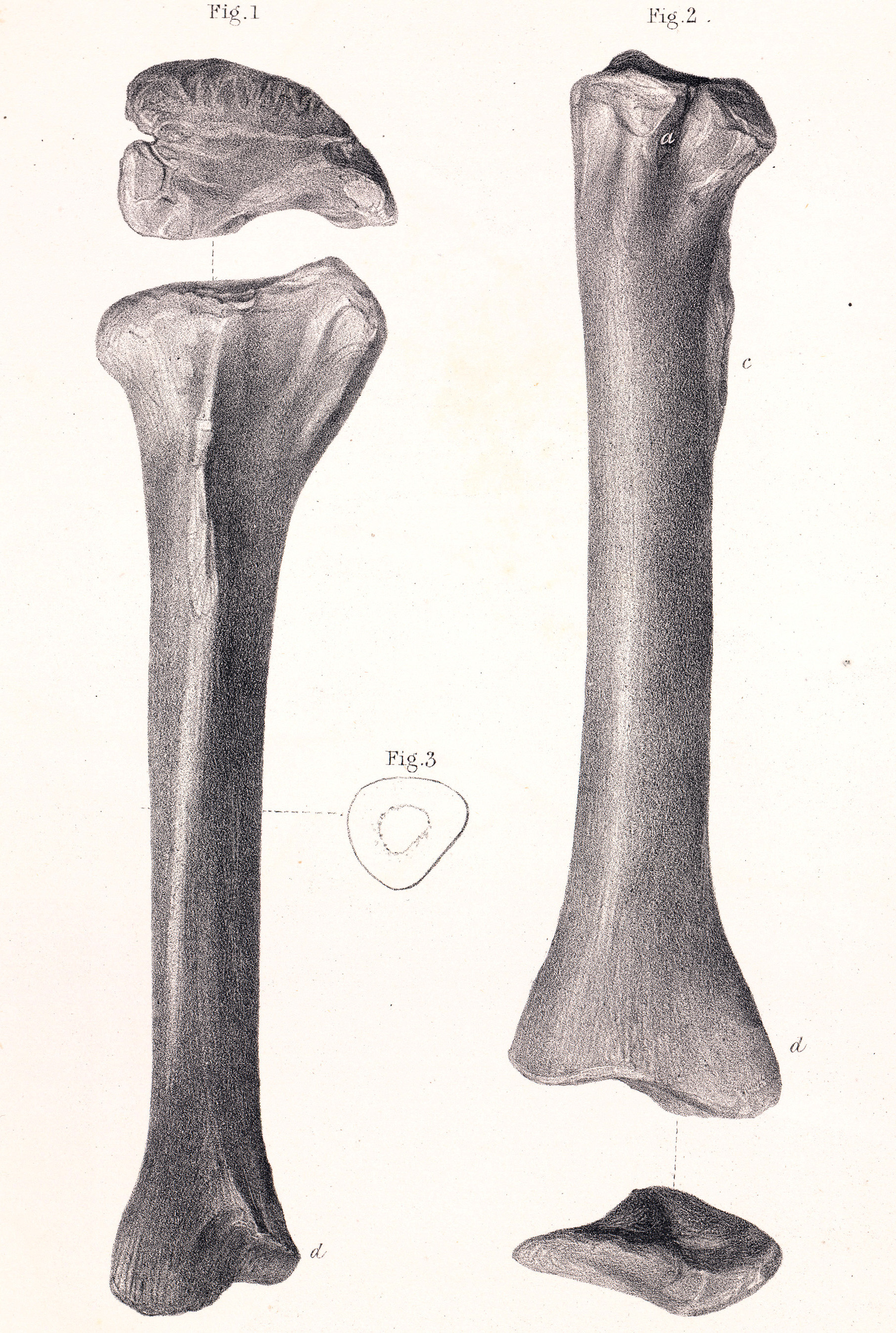 The tibia of the Megalosaurus; one fourth nat. size. Fig. 1. Outer surface, with the upper articular end. Fig. 2. Hinder surface, with the lower articular end. Fig. 3. Section of shaft, showing the medullary cavity.